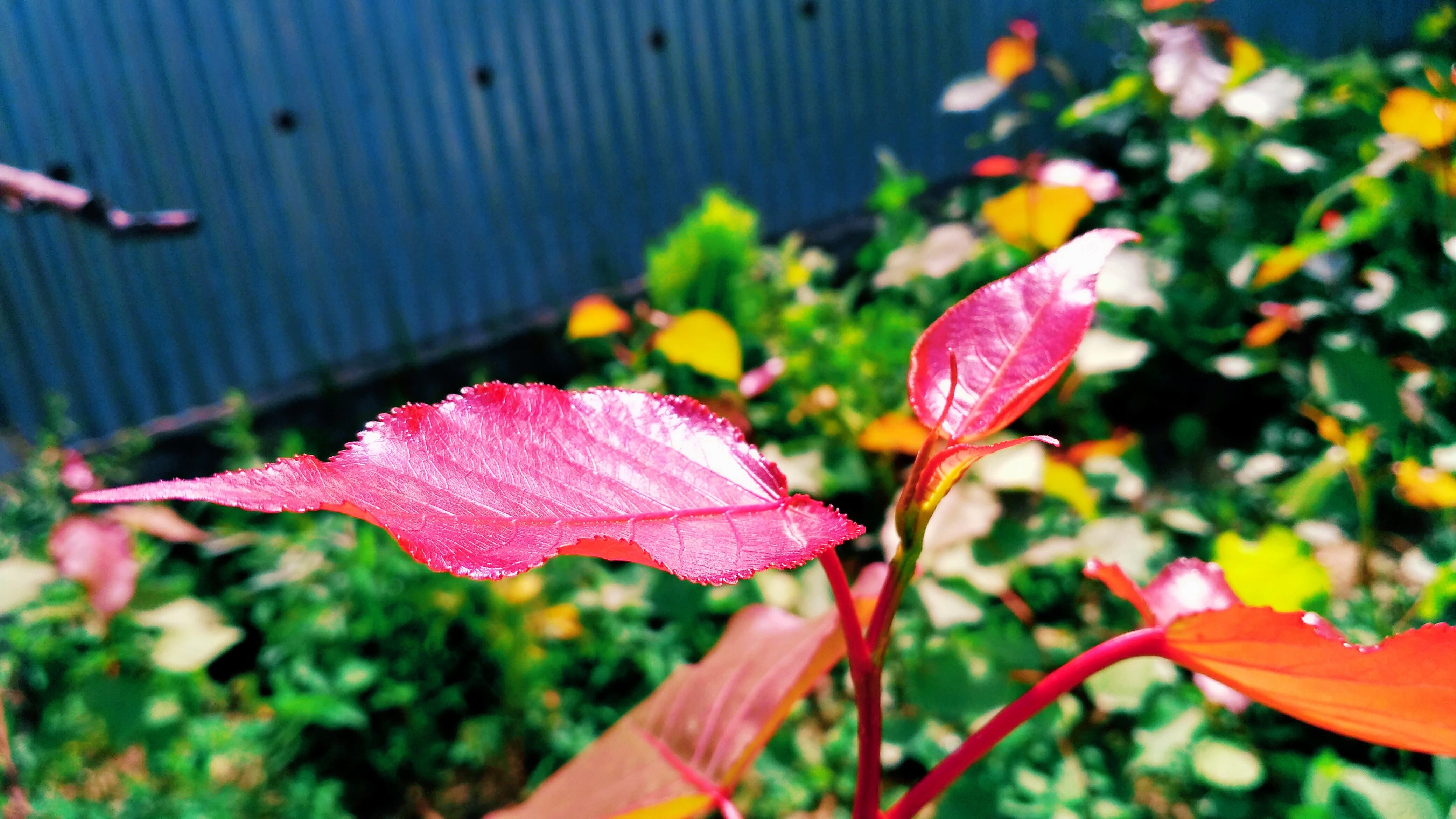 Nice photo